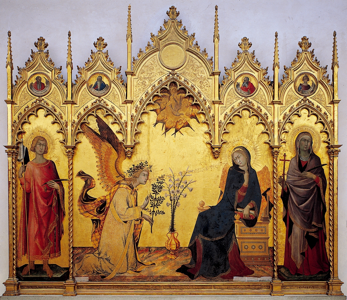 Gabriel holds an olive branch in his hand, a traditional symbol of peace, while pointing at the Holy Ghost's dove with the other.